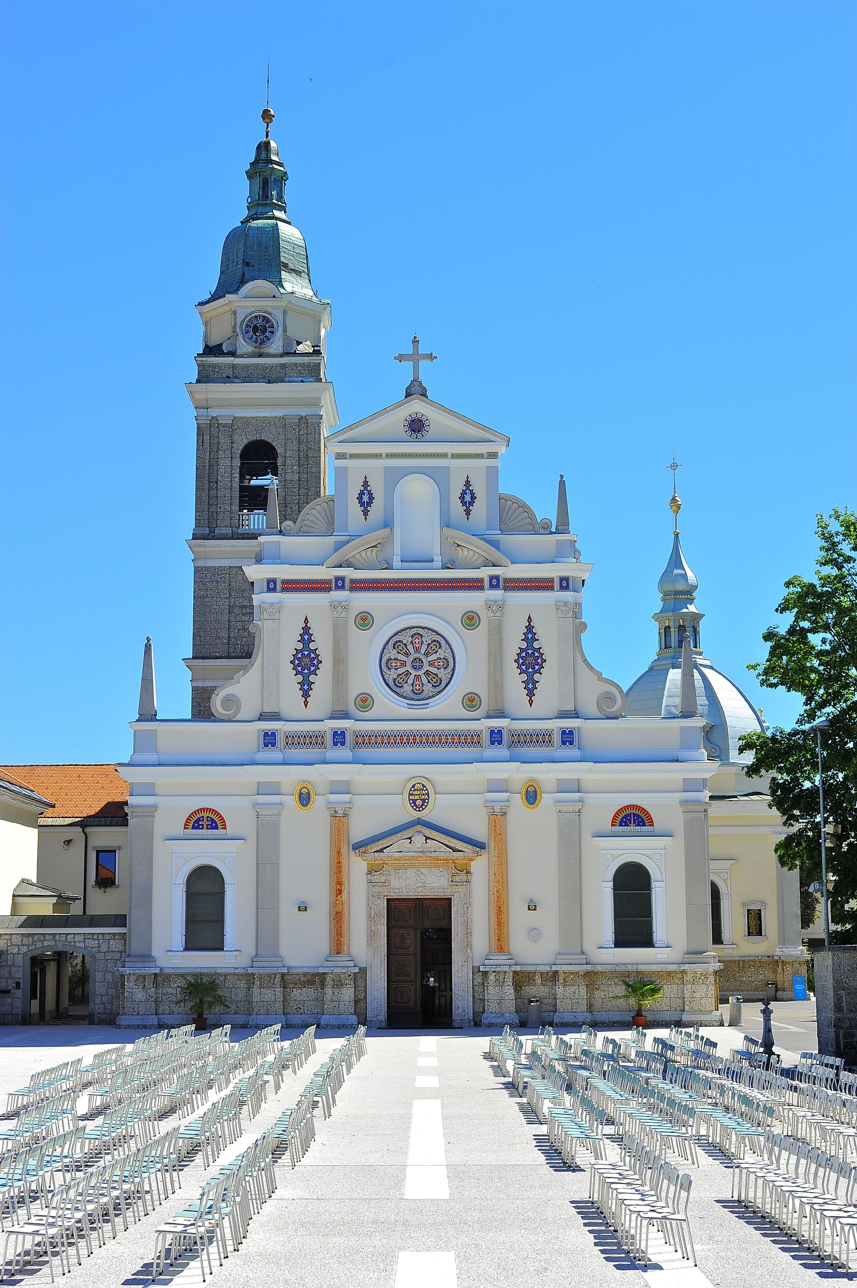 Parish and pilgrimage church Saint Veit in Brezje, municipality Radovljica / Upper Carniola / Slovenia / EU